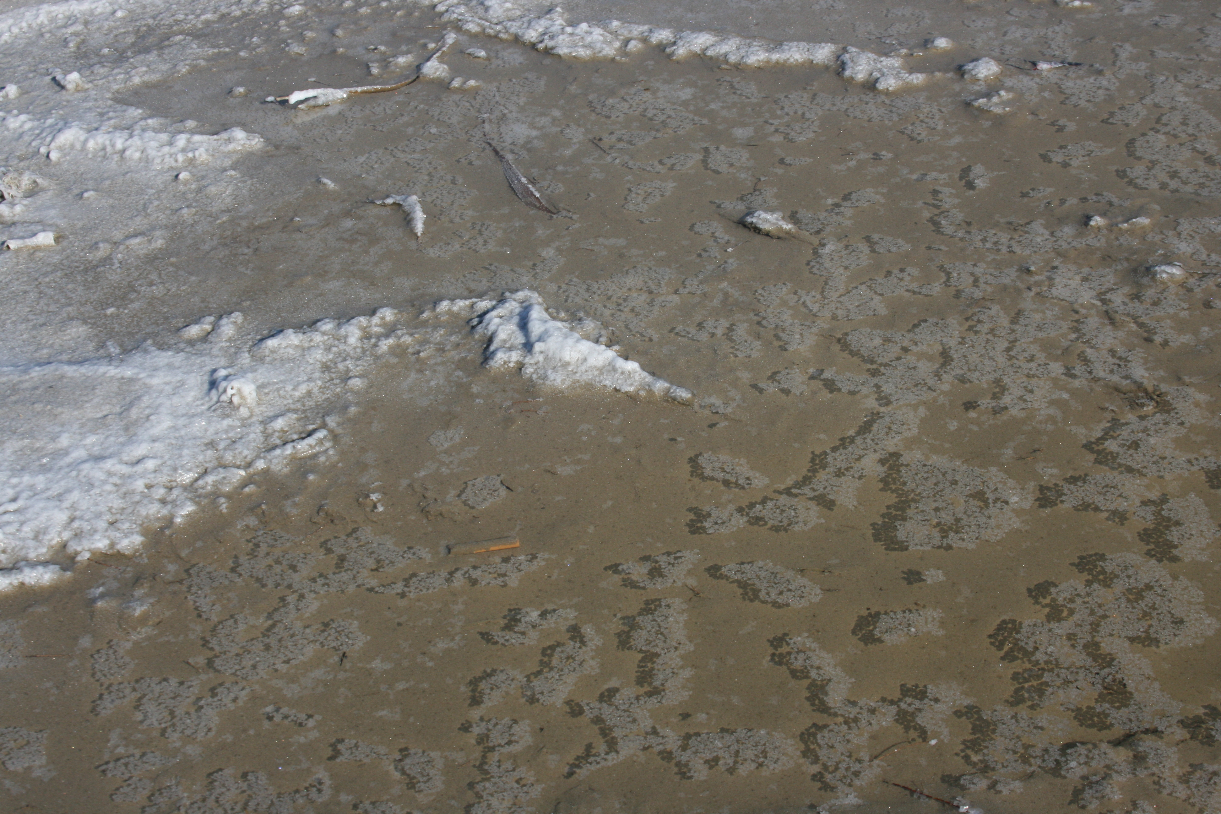 salt crystals in a puddle, nearby salt-lick of Salin de Giraud, Camargue, France